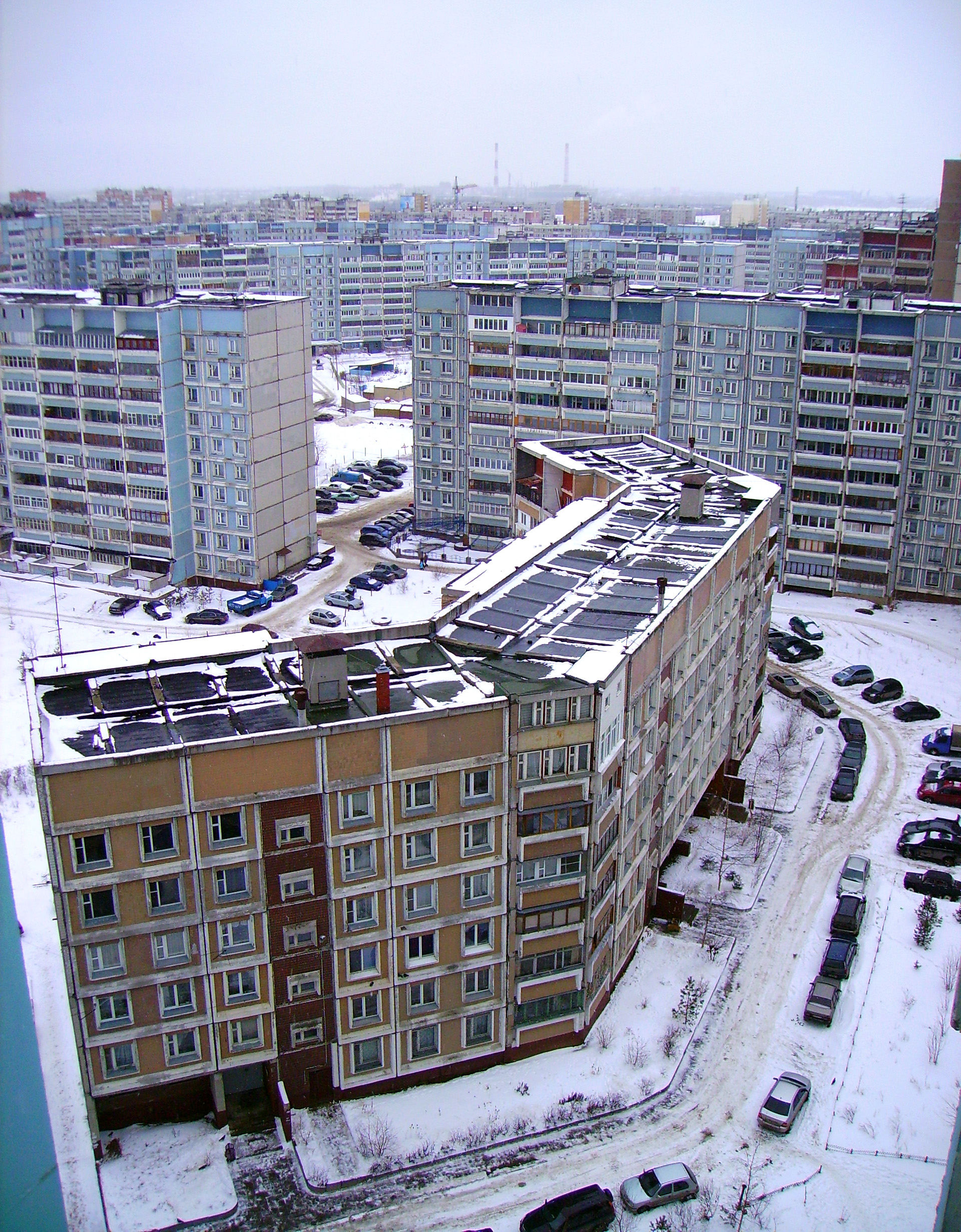 Experimental Housing Complex of Meshcherskoe Ozero inside.